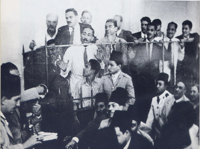 Trial of Sadat (Amin Othman Murder)